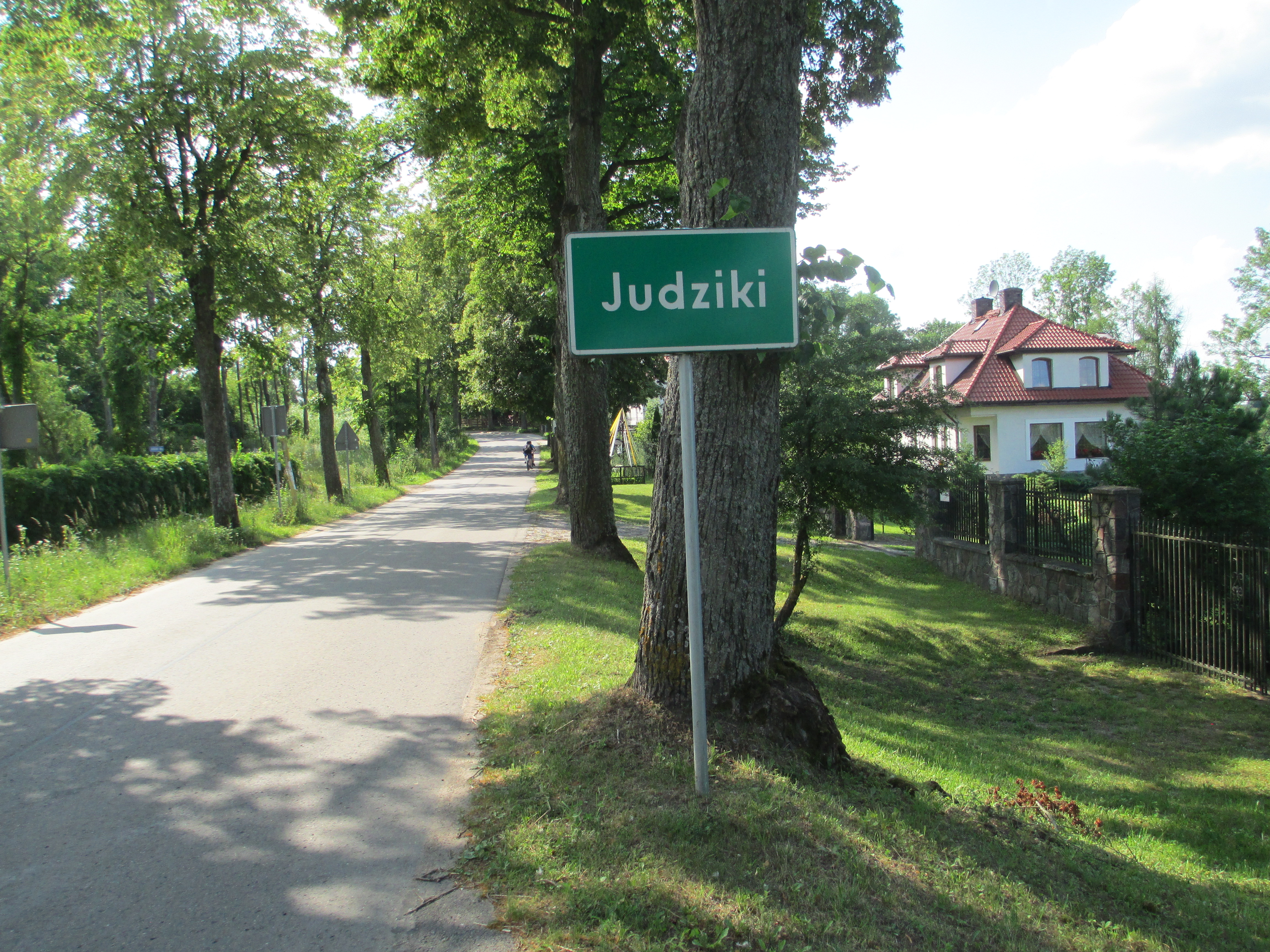 Judziki gm. Ełk